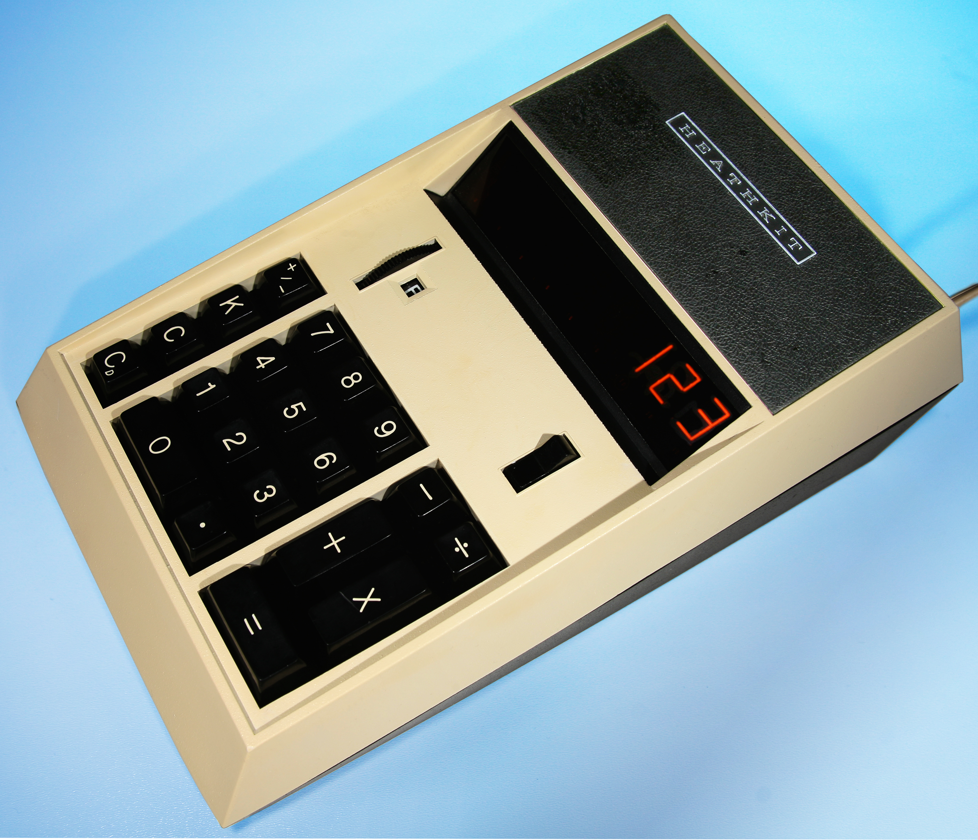 The calculator was designed to be built as a kit. The calculator use TMS0101 Texas Instruments calculator-on-a-chip. The main board contains the power supply, keyboard, calculator chip, and clock generation circuitry. The second board is the display sub-assembly, and contains the transistorized display drivers, and sockets for three Sperry SP-733 three-digit planar neon gas discharge display modules.